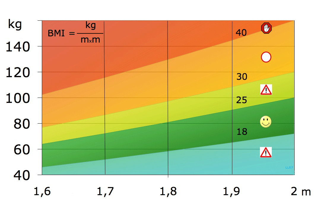 Body mass index. Graphics is made language independent.